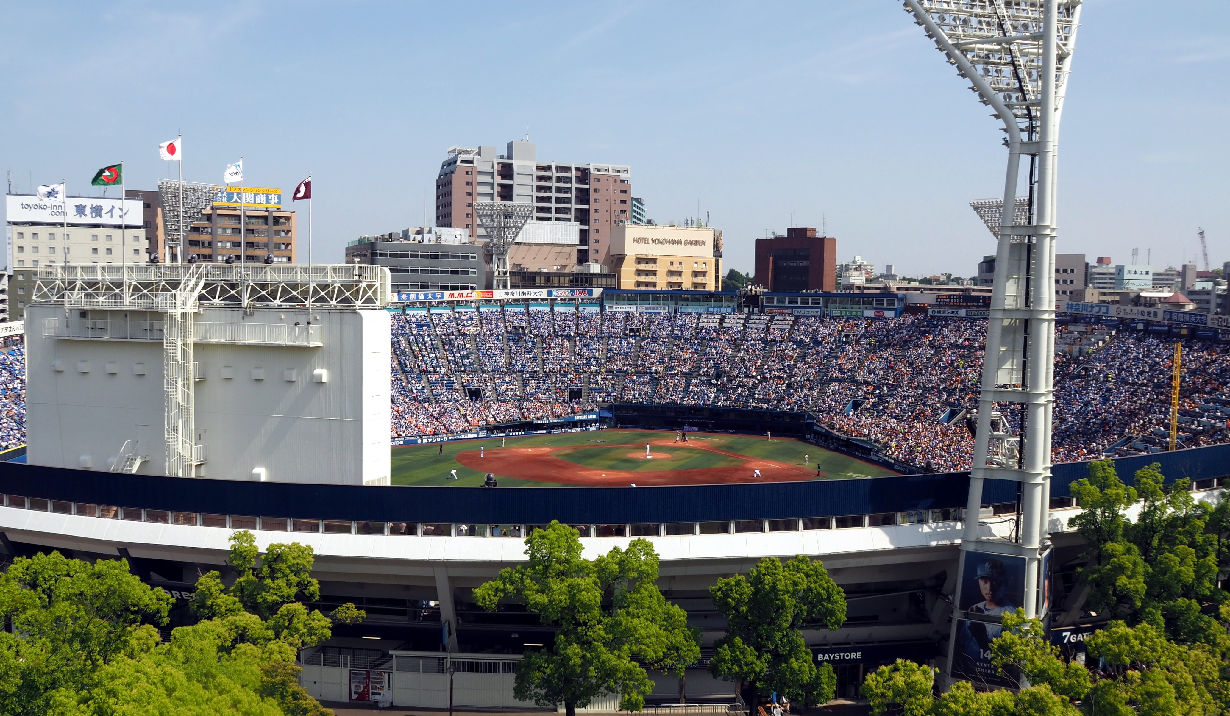 Yokohama Baystars (through office window)